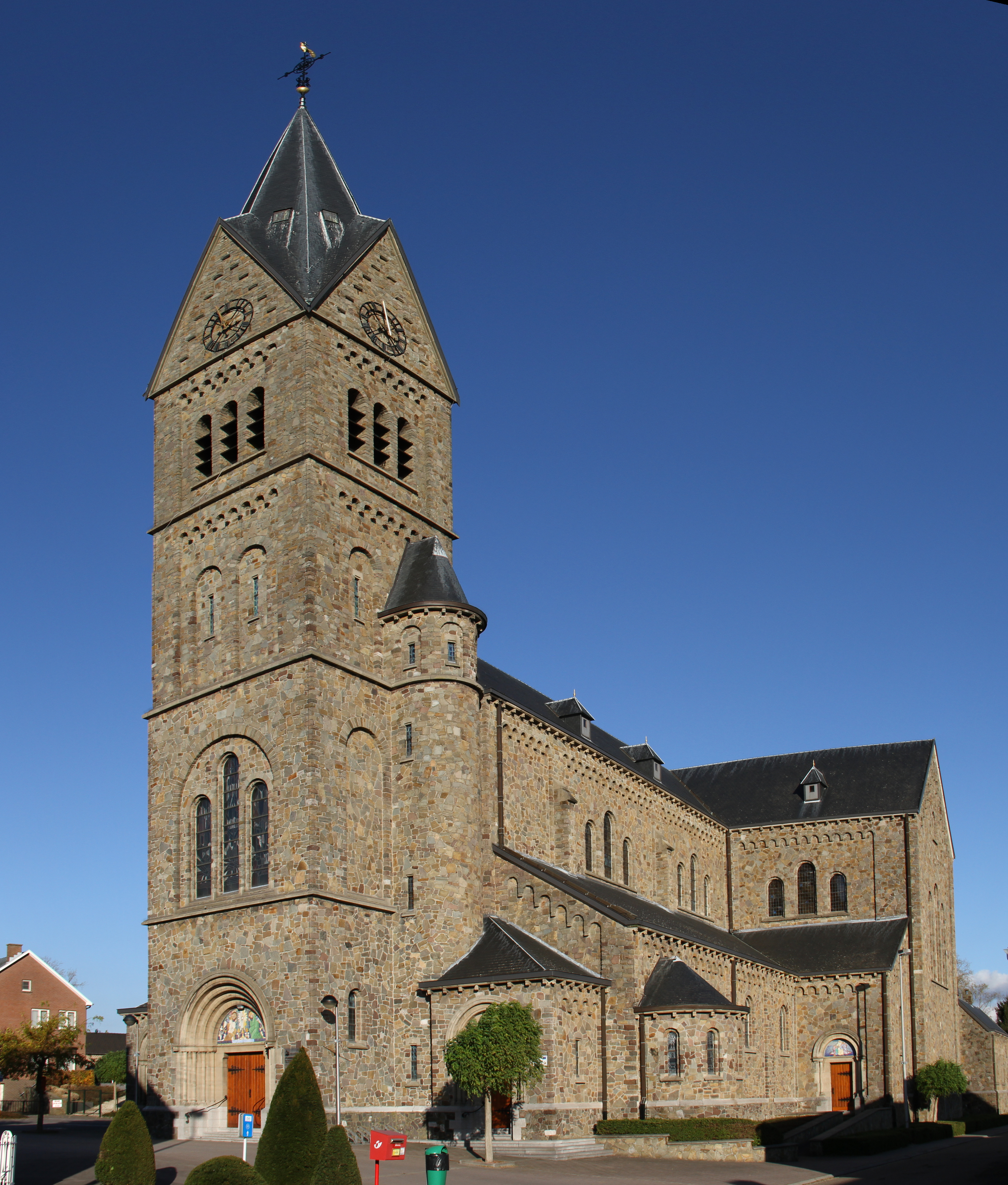 Sint-Lambertuskerk in Veldwezelt, Lanaken in Belgium.